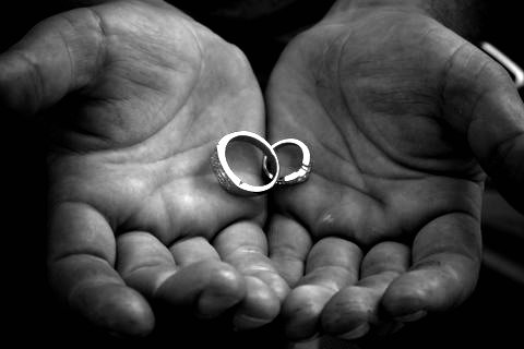 My brother got married !!